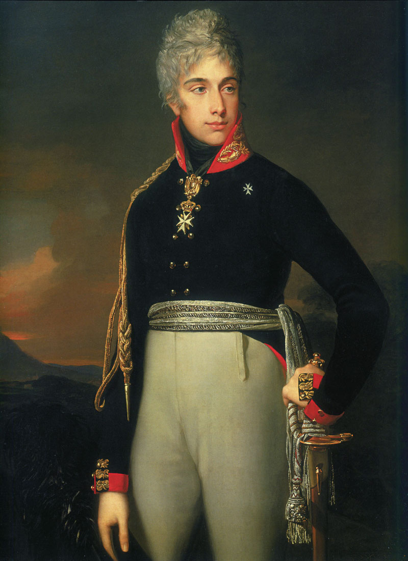 Lev Alexandrovich Naryshkin